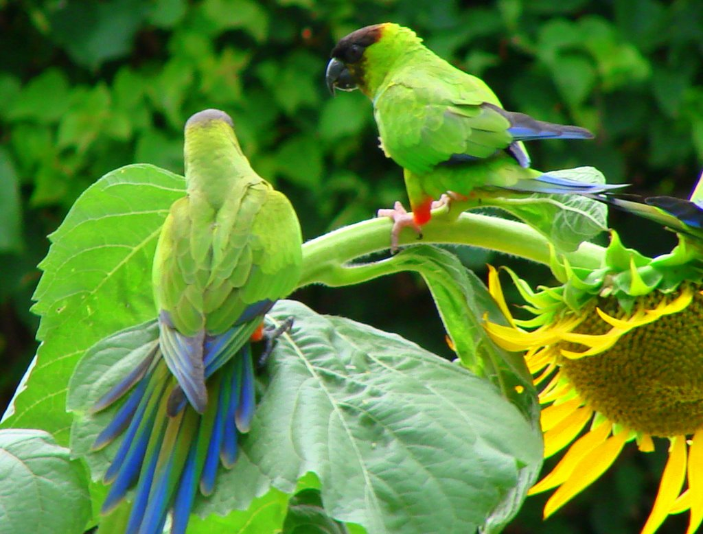 Feral Nanday Parakeets (also known as the Black-hooded Parakeet or Nanday Conure) eating sunflower seeds in a garden in Sarasota, Florida, USA.